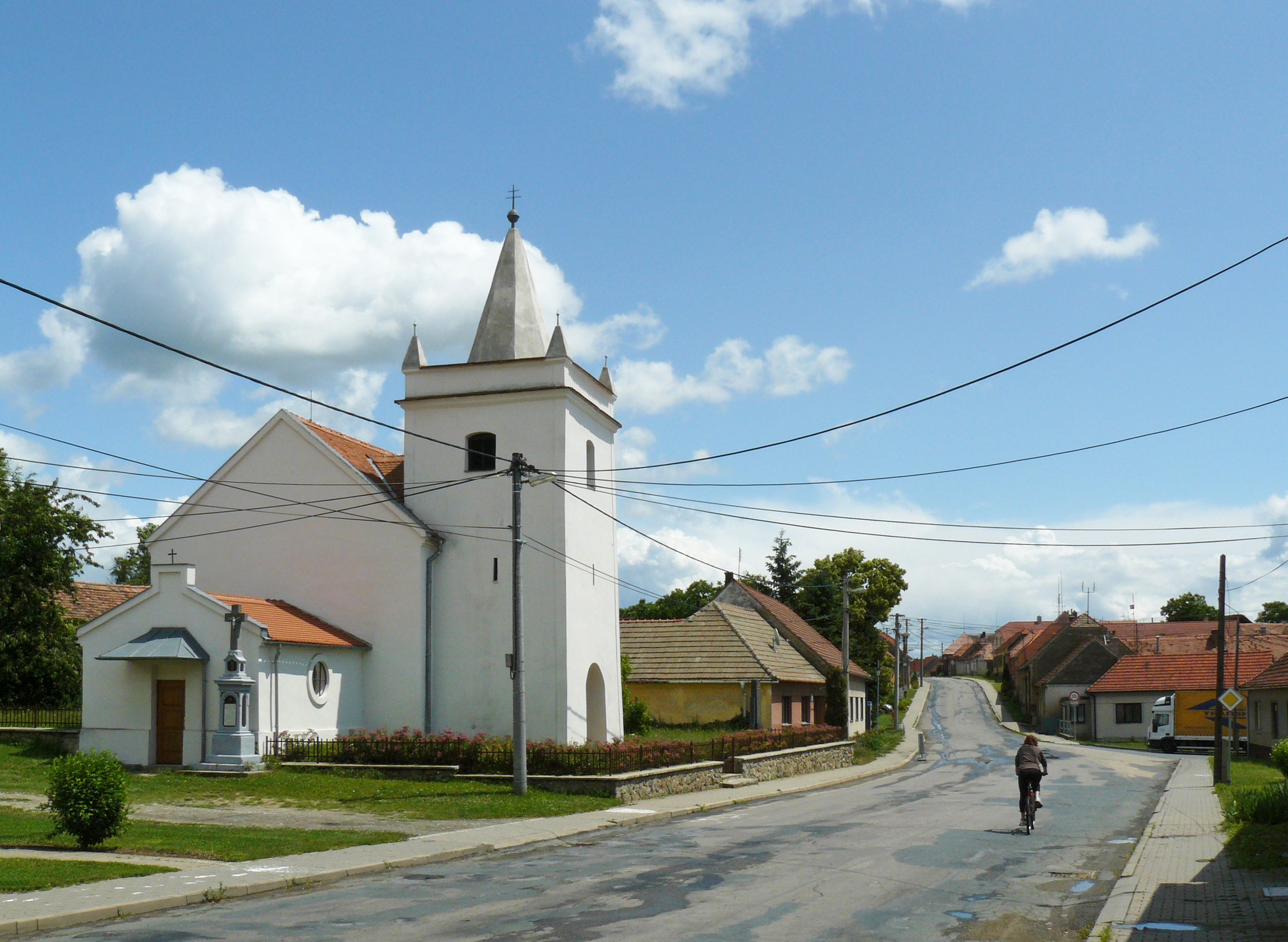 Jamolice - village in Czech Republic